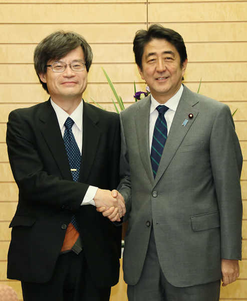 Hiroshi Amano, Director of Akasaki Research Center, Nagoya University, met Shinzō Abe, Prime Minister, at the Prime Minister's Official Residence in Chiyoda Ward, Tōkyō Metropolis on October 22, 2014.